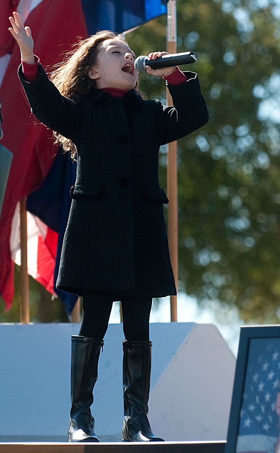 Rhema Marvanne, 7, sings "The Prayer" during a Remembrance Ceremony at Ft. Hood, TX, Nov. 5, 2010. The ceremony commemorated the lives of 13 people who died in a tragic shooting incident on the installation Nov. 5, 2009. Army photo by D. Myles Cullen (released)